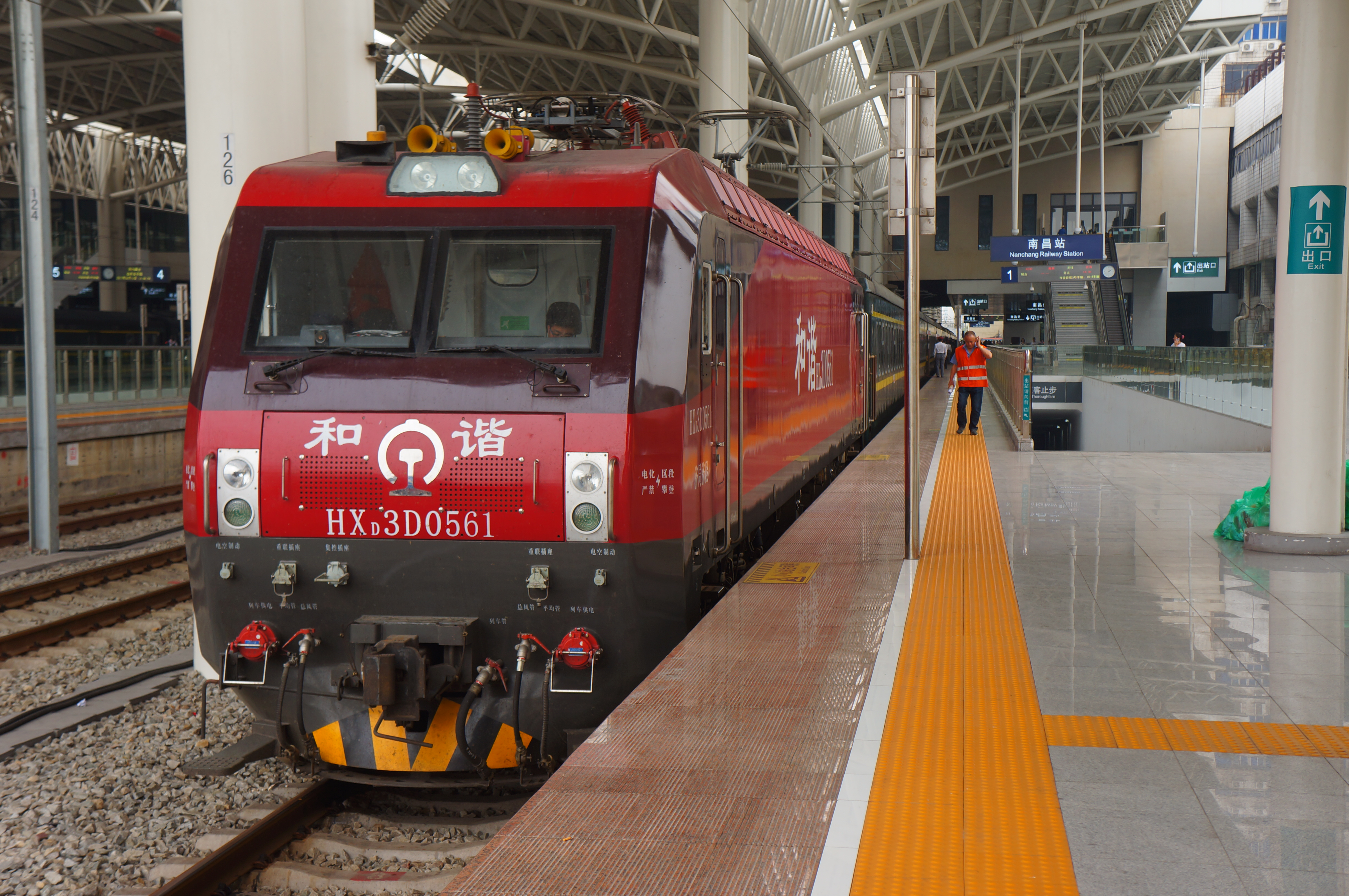 201705 HXD3D-0561 (Nanchang to Qingdao) hauls K342 at Nanchang Station